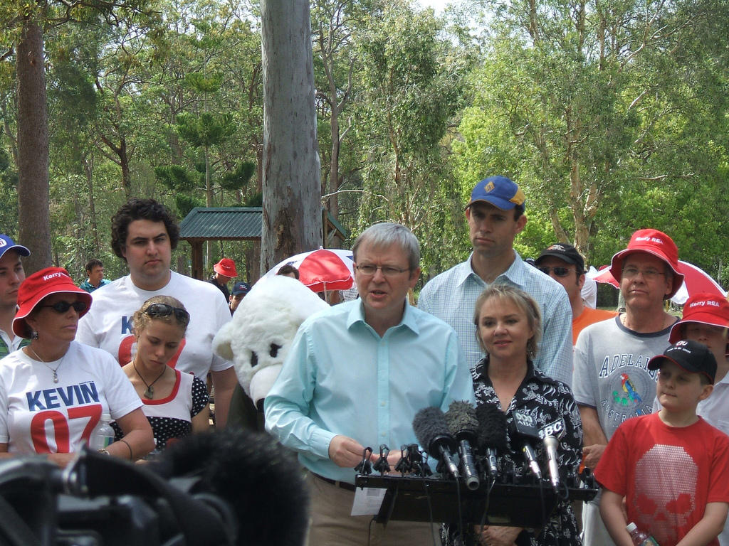 Labor leader Kevin Rudd on his birthday campaigning with Kerry Rea in the Division of Bonner on 21 September 2007, prior to the November 2007 federal election.